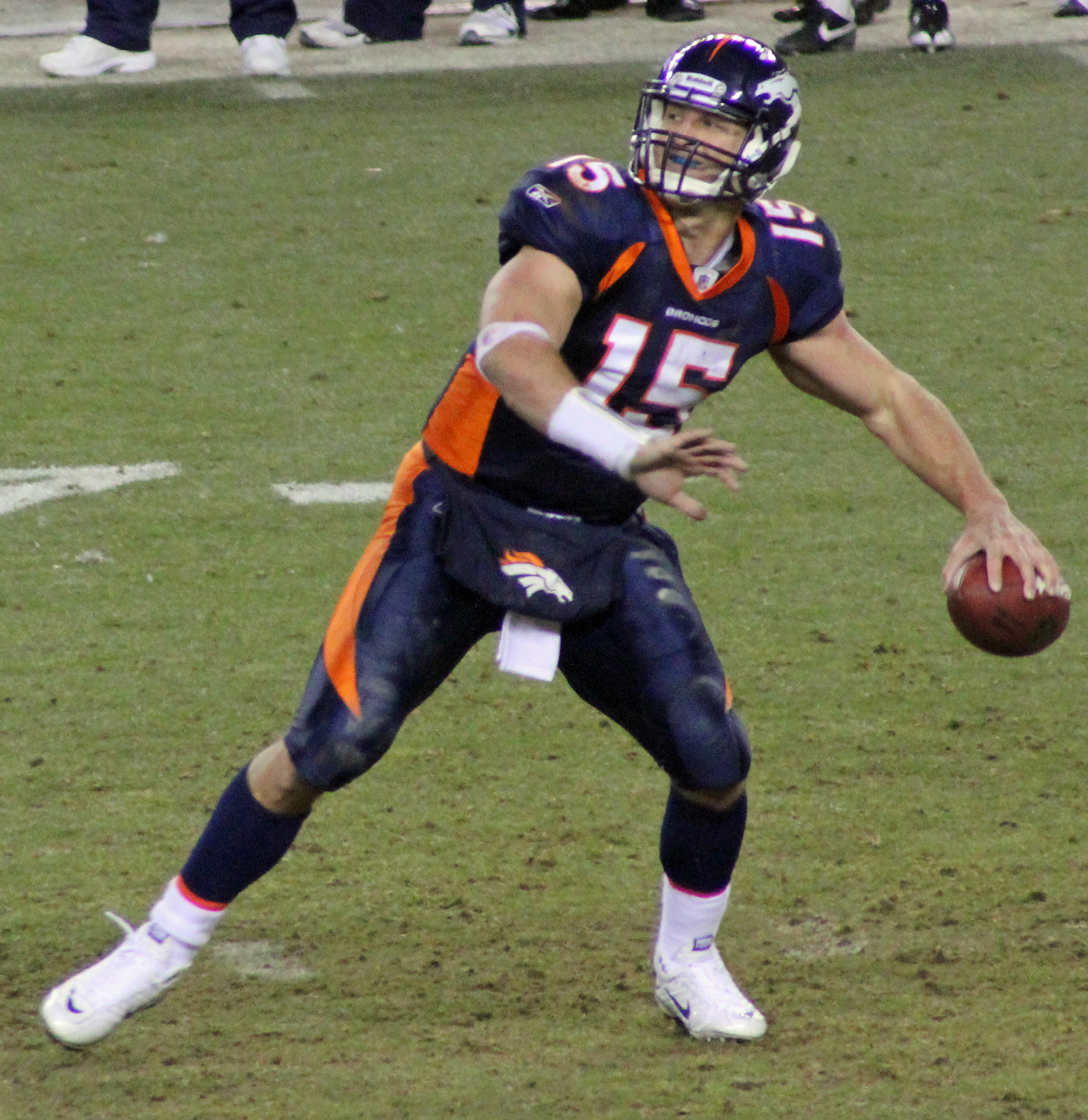 Tim Tebow about to throw a pass at a game against the San Diego Chargers in January 2011, demonstrating his extremely elongated throwing motion.